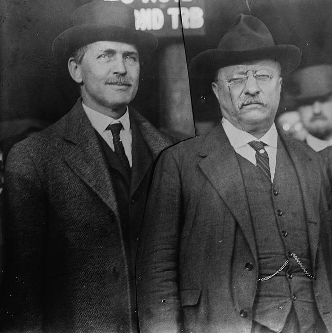 James Rudolph Garfield and Teddy Roosevelt.